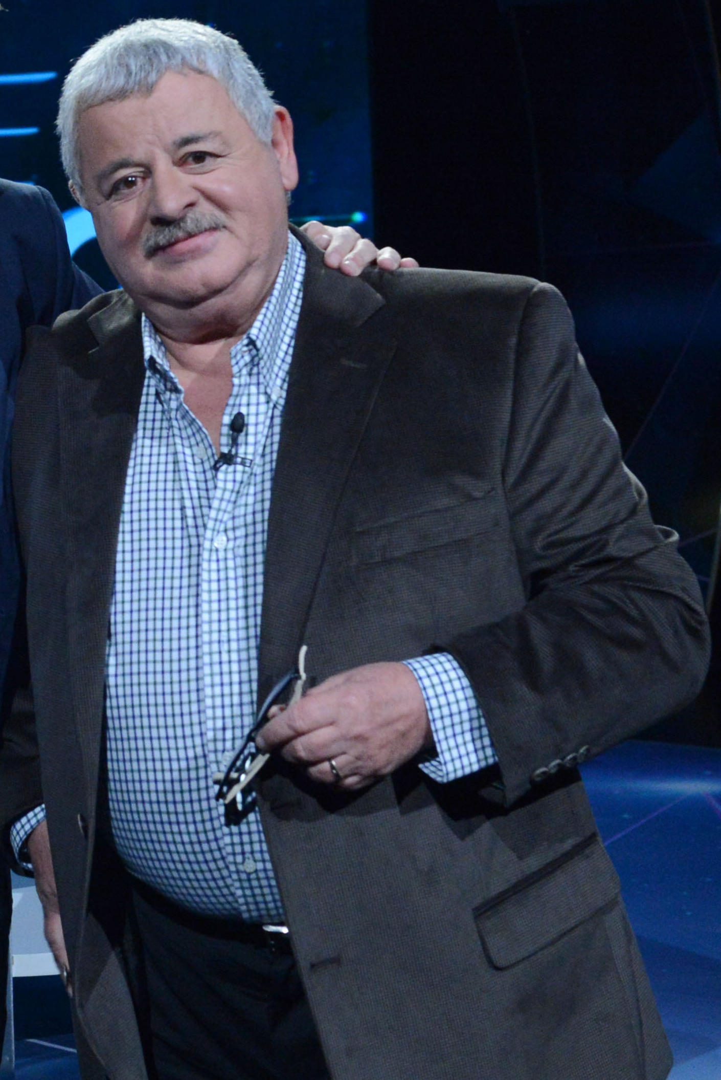 Matías Martín y Tití Fernández 14-08-2014. Foto: TVP 2014